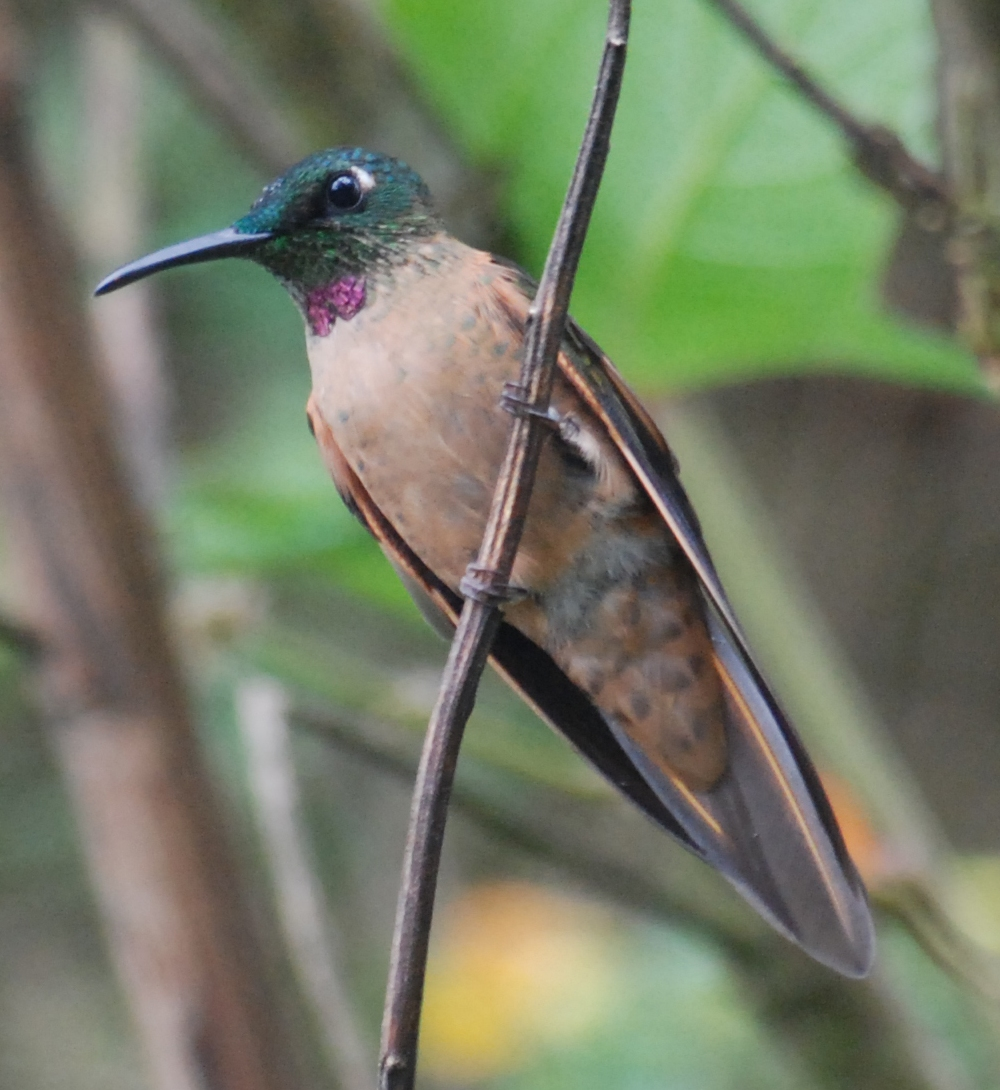 Fawn-breasted Brilliant (Heliodoxa rubinoides) at the Bellavista Nature Preserve, Ecuador.